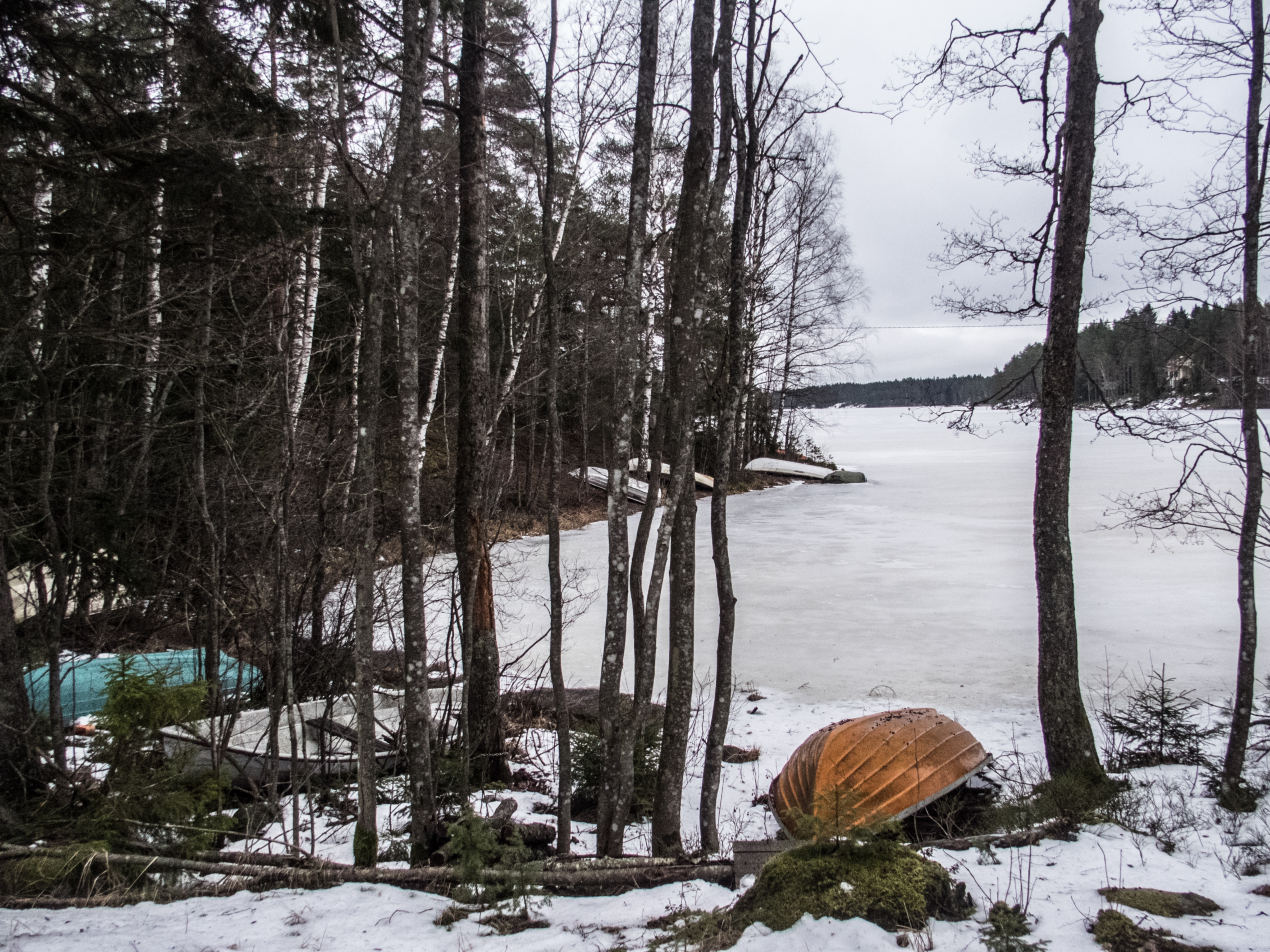 "Matilda Lake" (Matildanjärvi) near Mathildedal village in Perniö, Salo, Finland.